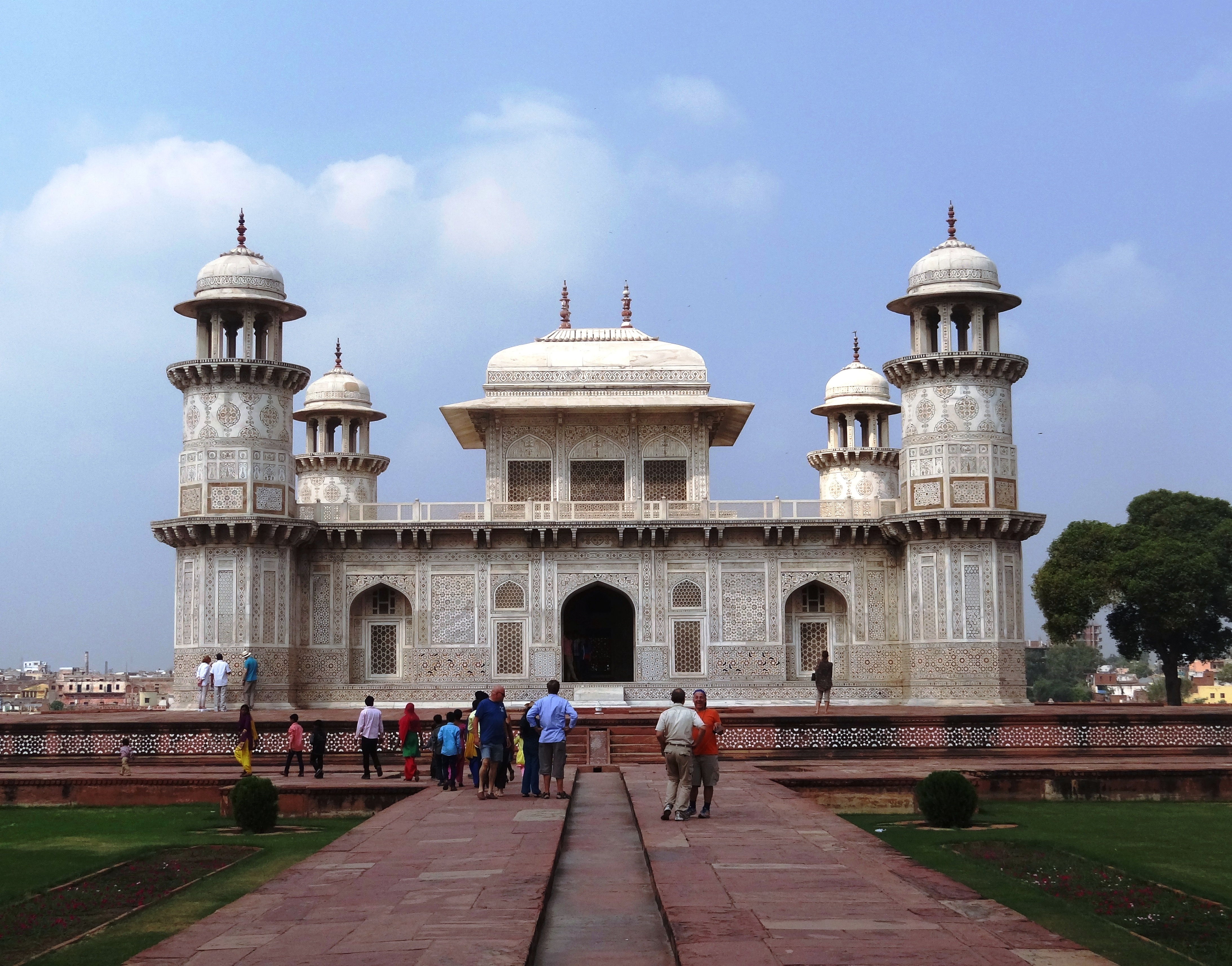 Tomb of Itmad-ud-Daulah, Agra